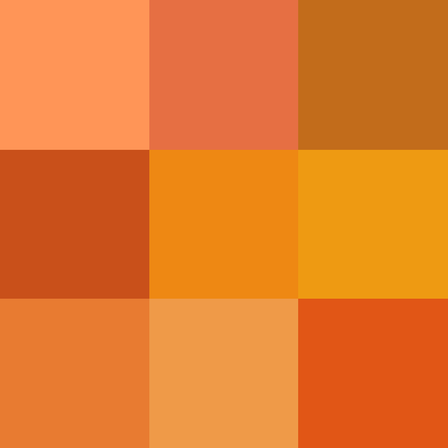 Nine different shades of orange. Intended use: to illustrate the look and scope of the colour orange.